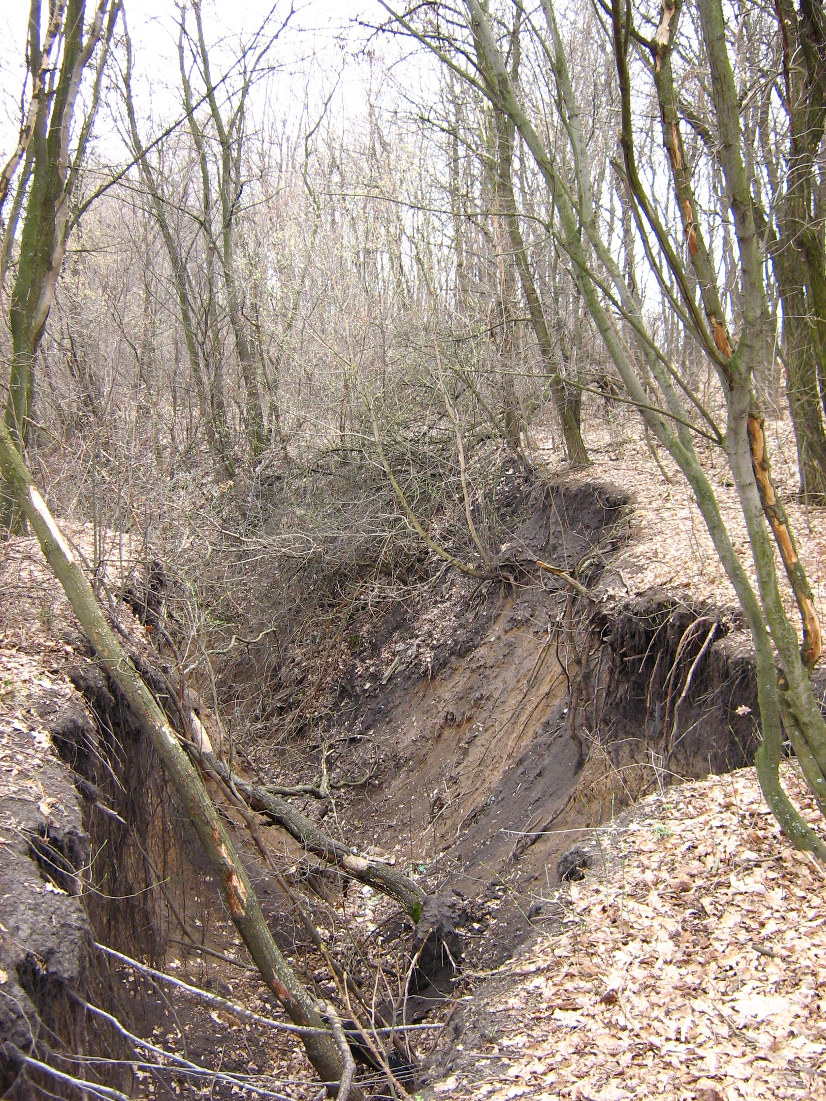 Gully in the Kharkov region in a small cut forest.